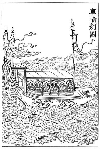 Chinese ship with paddle-wheels, from an encyclopedia of 1726.